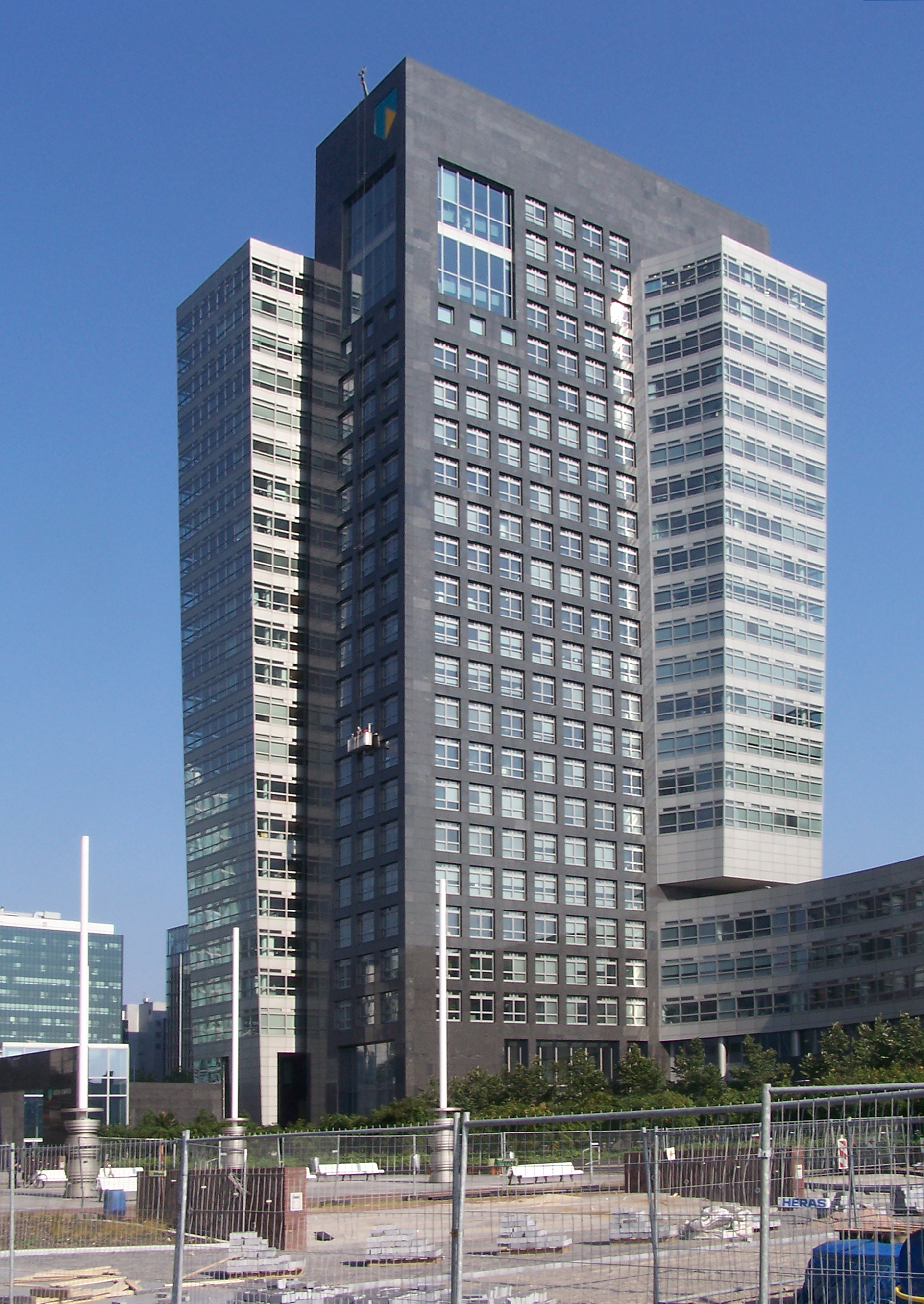 This picture shows the ABN AMRO headquarters in the Zuidas, Amsterdam. Author:Mig de Jong, september 2005